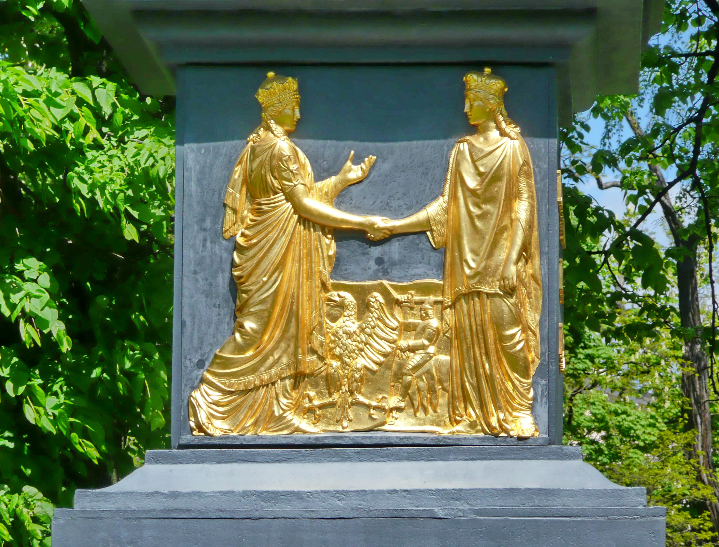 A bas relief on the Lublin Union Obelisk